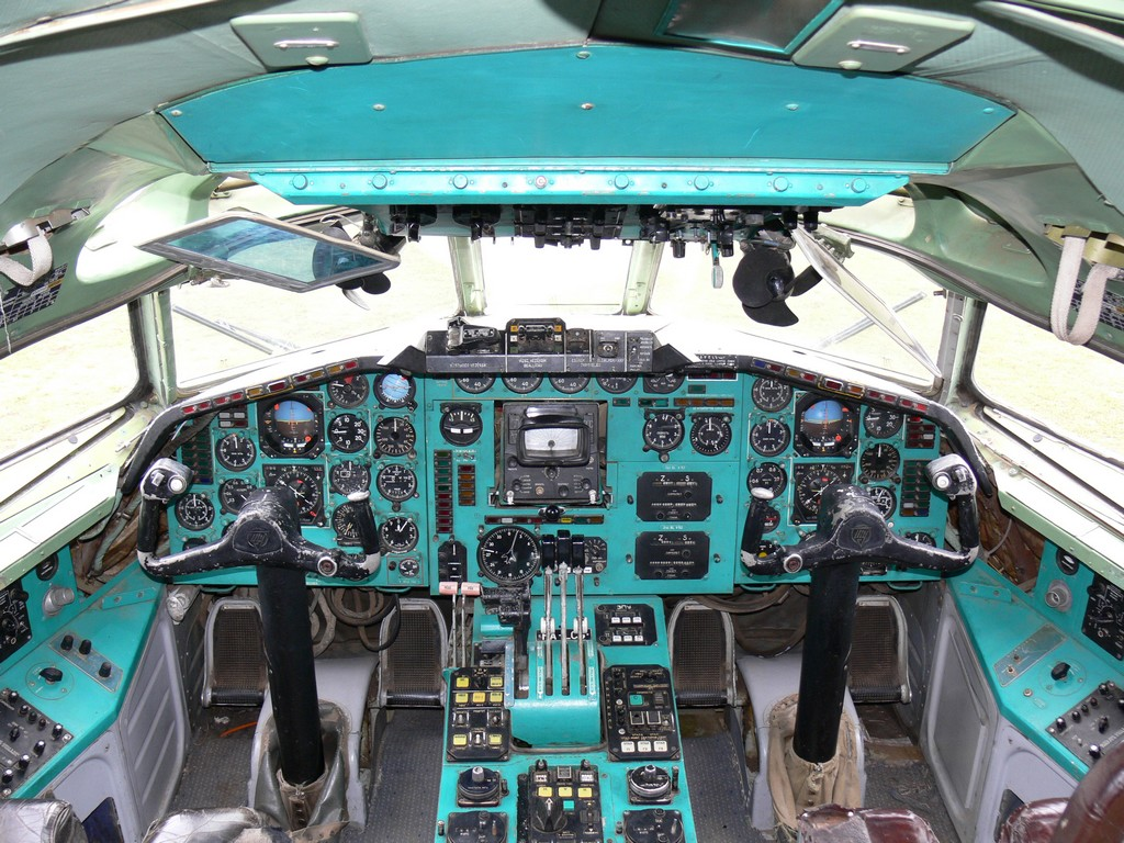 Tu-154 B2 cockpit Malév Hungarian Airlines Location: Ferihegy Aviation Memorial Park (Budapest)